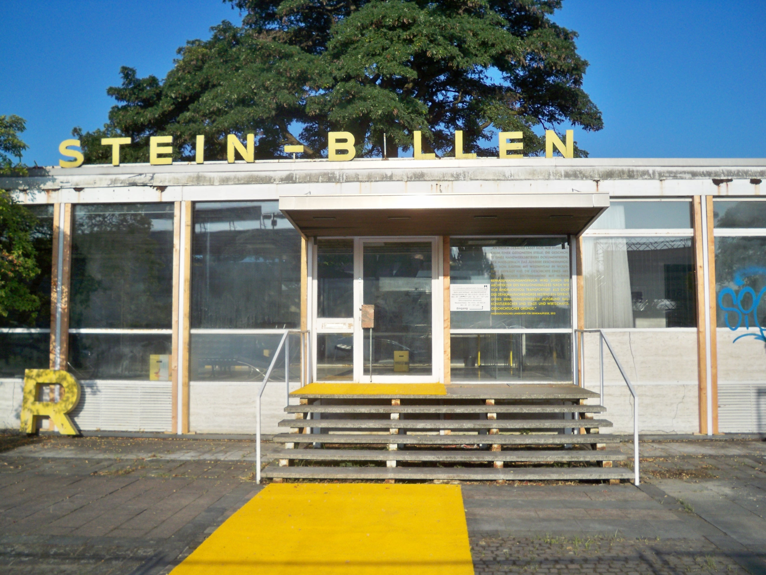 Wolfsburg, Lower Saxony, Billen-Pavillon (1959) with carpet during "Kulturwochen" 2019